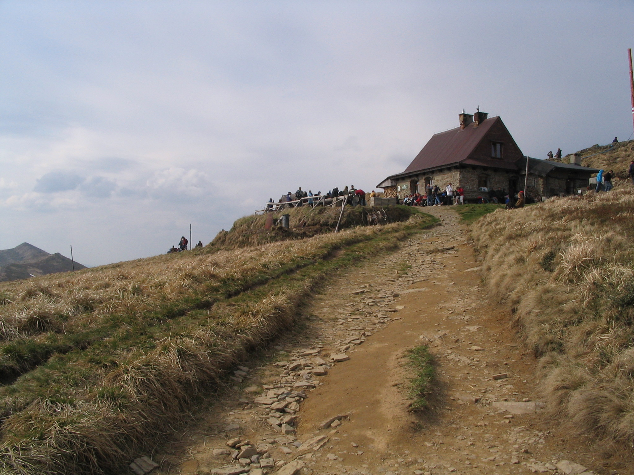 "Chatka Puchatka", Połonina Wetlińska, Bieszczady